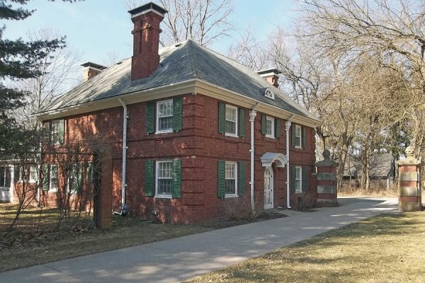 Gate house for the Robert Allerton Estate from 1900 to 1946. The head gardener lived in this house, which was built in 1902.